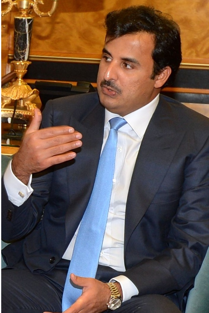 U.S. Secretary of State John Kerry meets with Qatari Emir Hamid bin Khalifa Al Thani on the margins of the 69th session of the United Nations General Assembly in New York City on September 25, 2014. [State Department photo/ Public Domain]